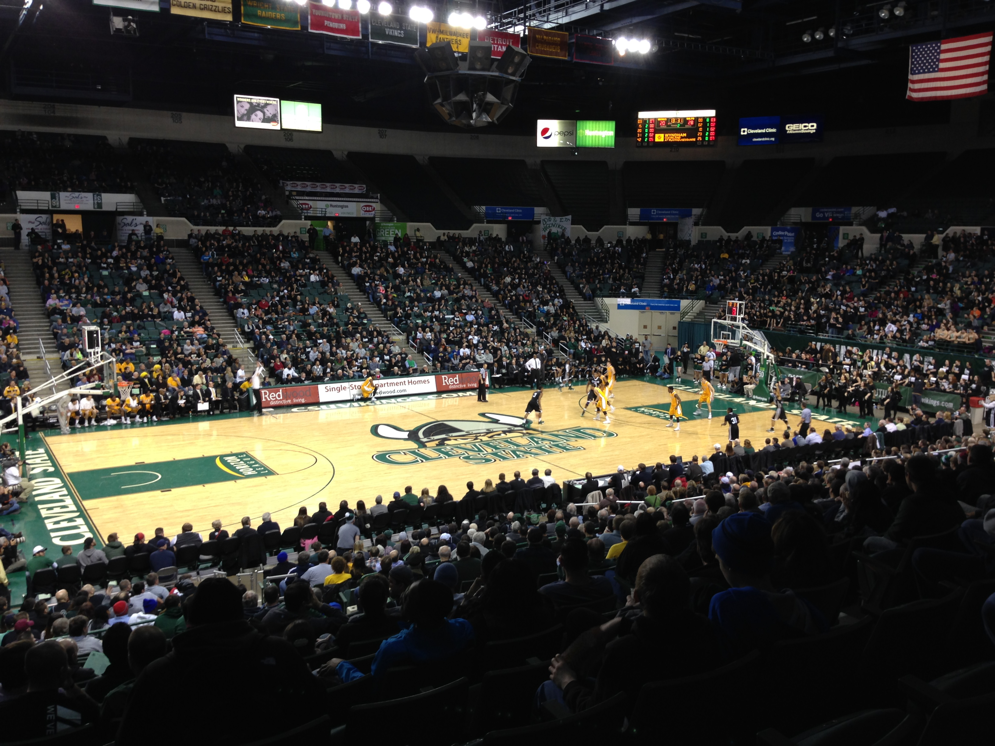 Interior view of the Wolstein Center in Cleveland, Ohio, United States, on the campus of Cleveland State University